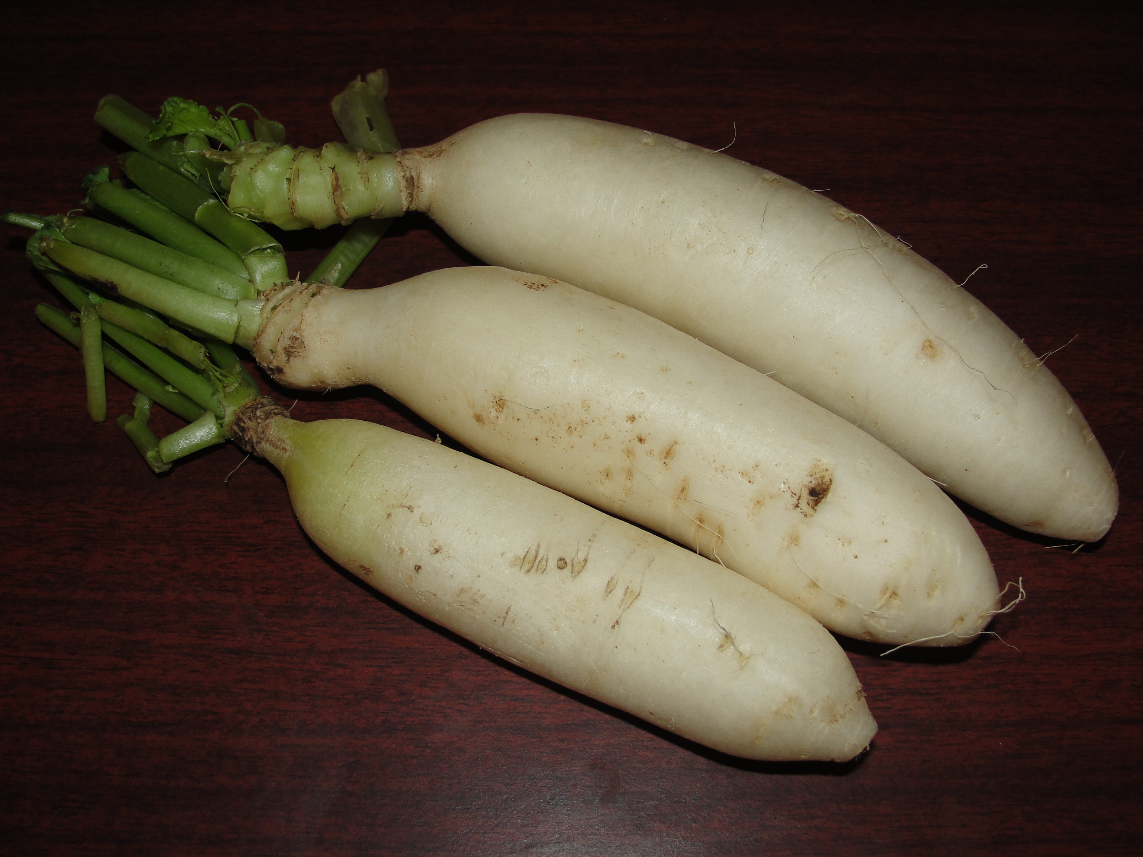 radish in Salem, Tamil Nadu, India